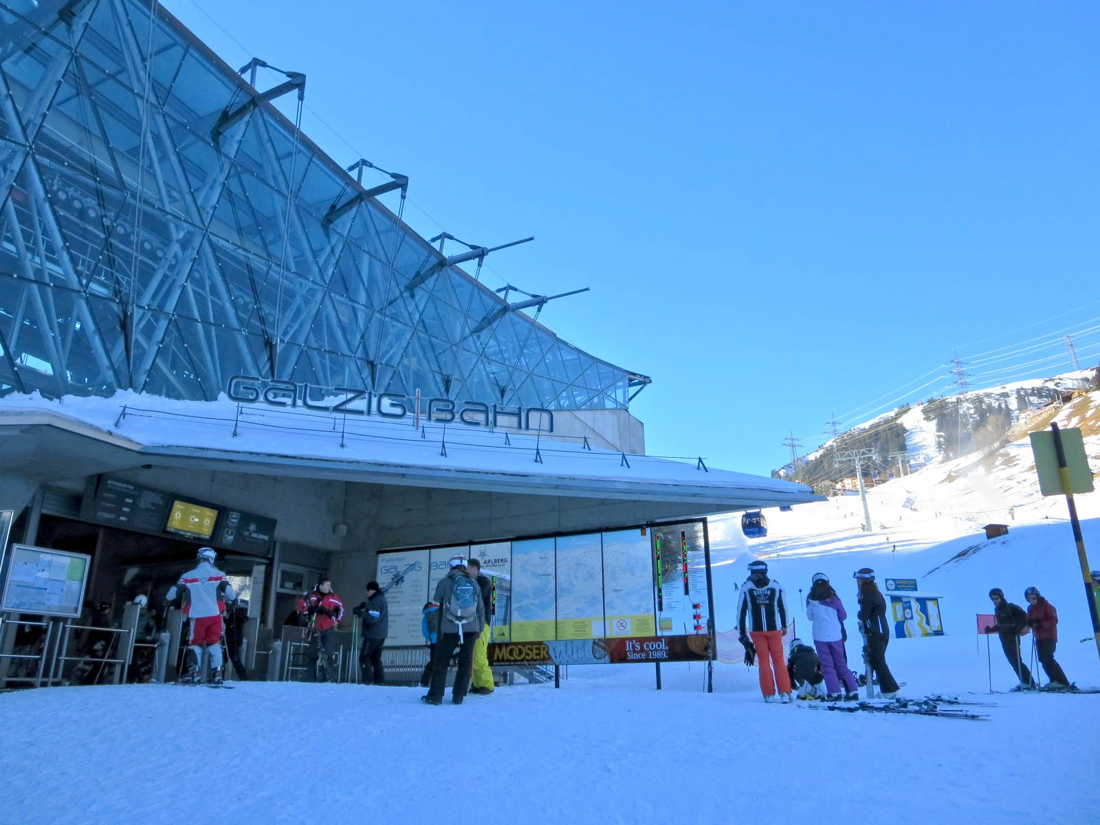 Ropeway Galzigbahn